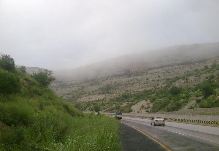 Fizzis Photography at Motorway KalarKahar